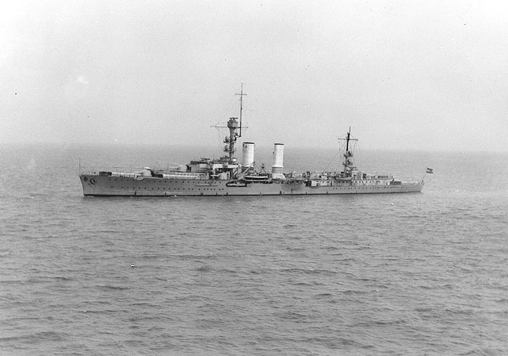 The German light cruiser Emden heading up the Yangtse River, en route to Nanking, China, 1931.